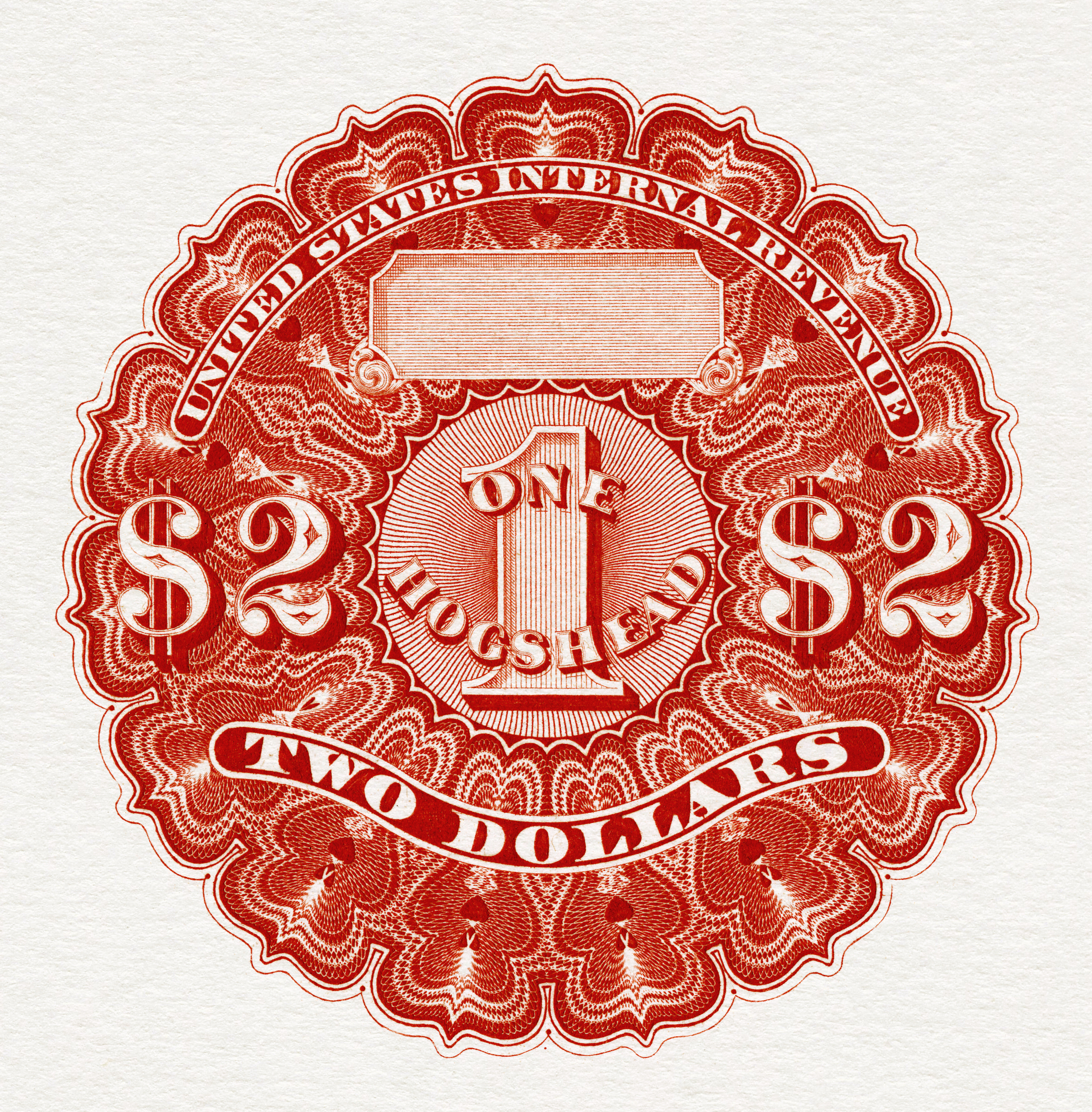 US Beer revenue tax stamp, 2 dollars (1 hogshead) (1867)This specimen is a proof